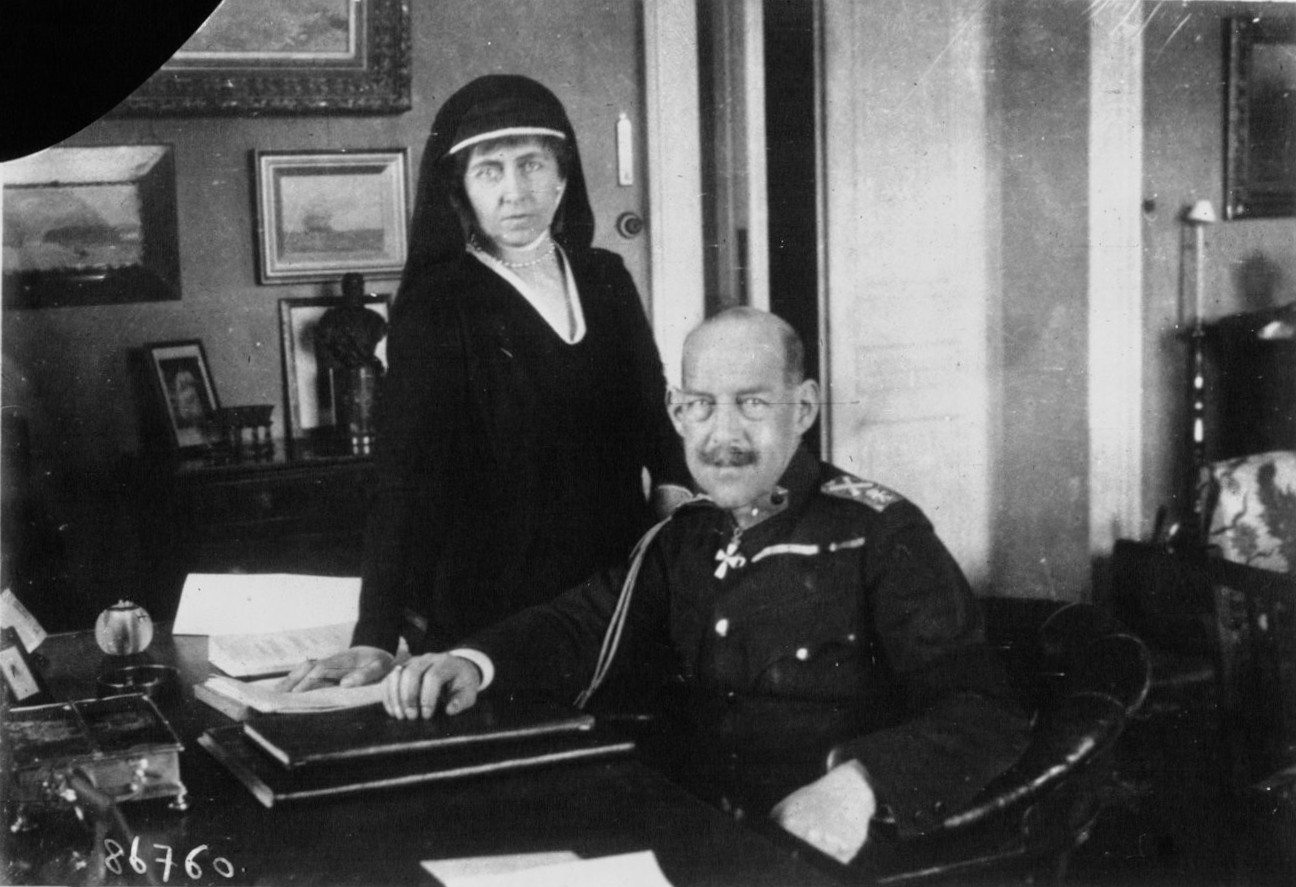 King Constantine I of Greece at his office, with Queen Sofia